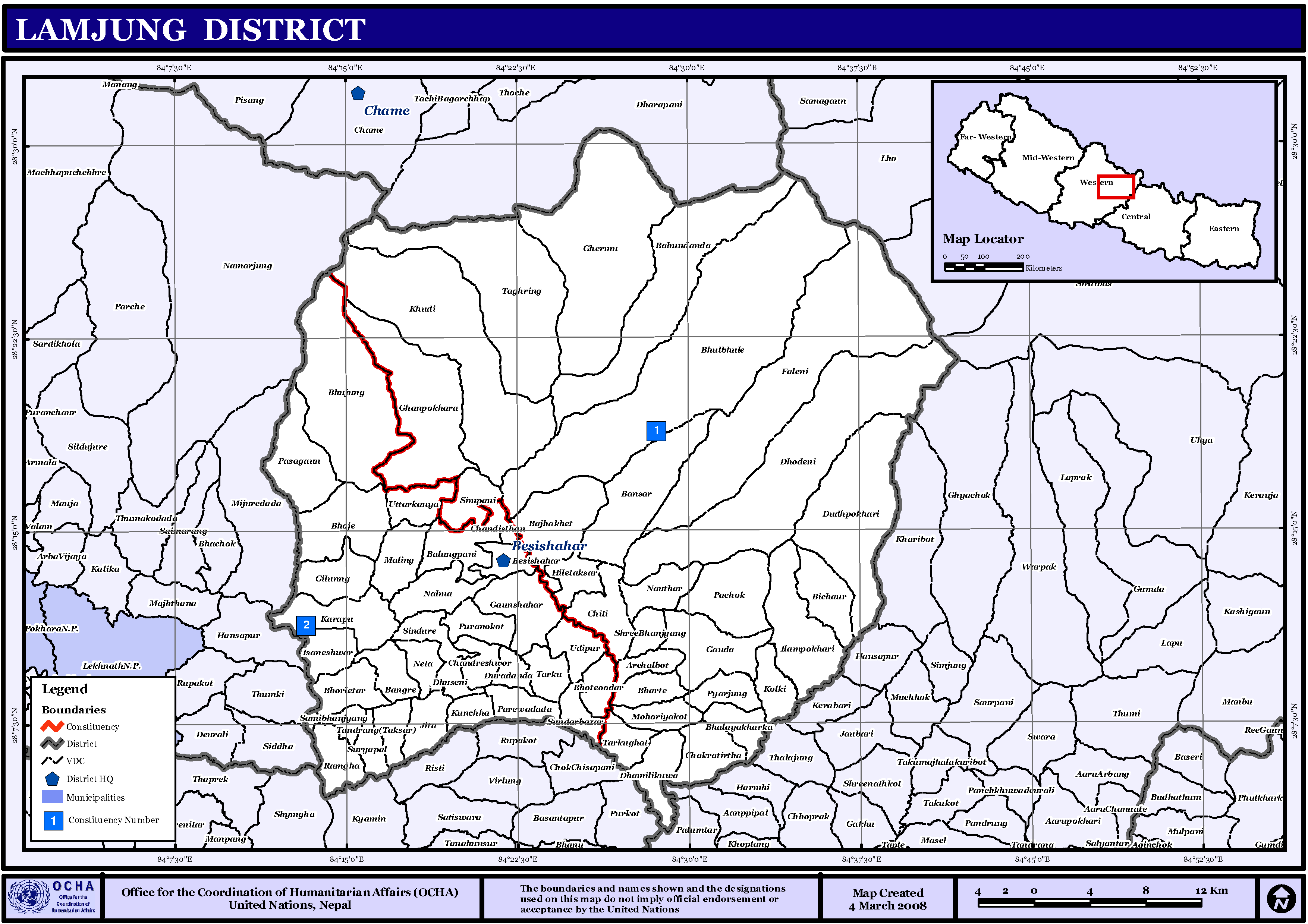 Map displaying Village Development Committees in Lamjung District, Nepal